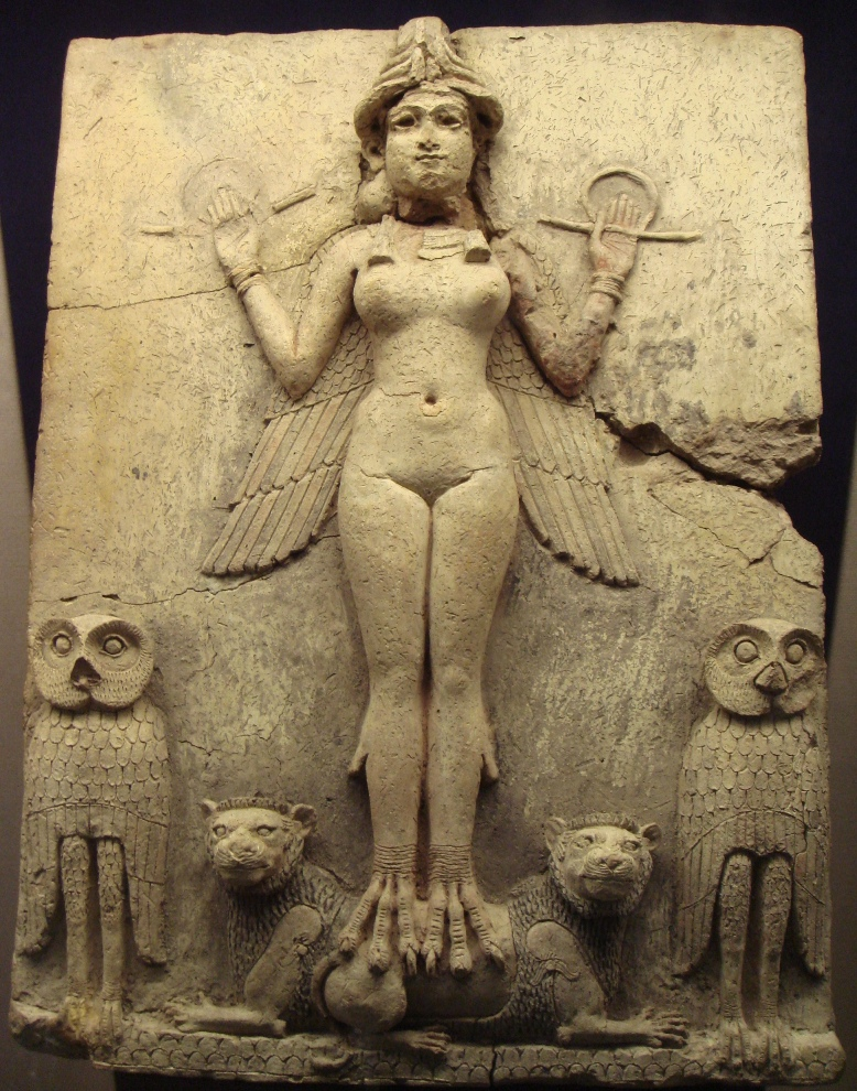 Famous relief from the Old Babylonian period (now in the British museum) called the "Burney relief" or "Queen of the Night relief". The depicted figure could be an aspect of the goddess Ishtar, Mesopotamian goddess of sexual love and war. However, her bird-feet and accompanying owls have suggested to some a connection with Lilitu (called Lilith in the Bible), though seemingly not the usual demonic Lilitu.